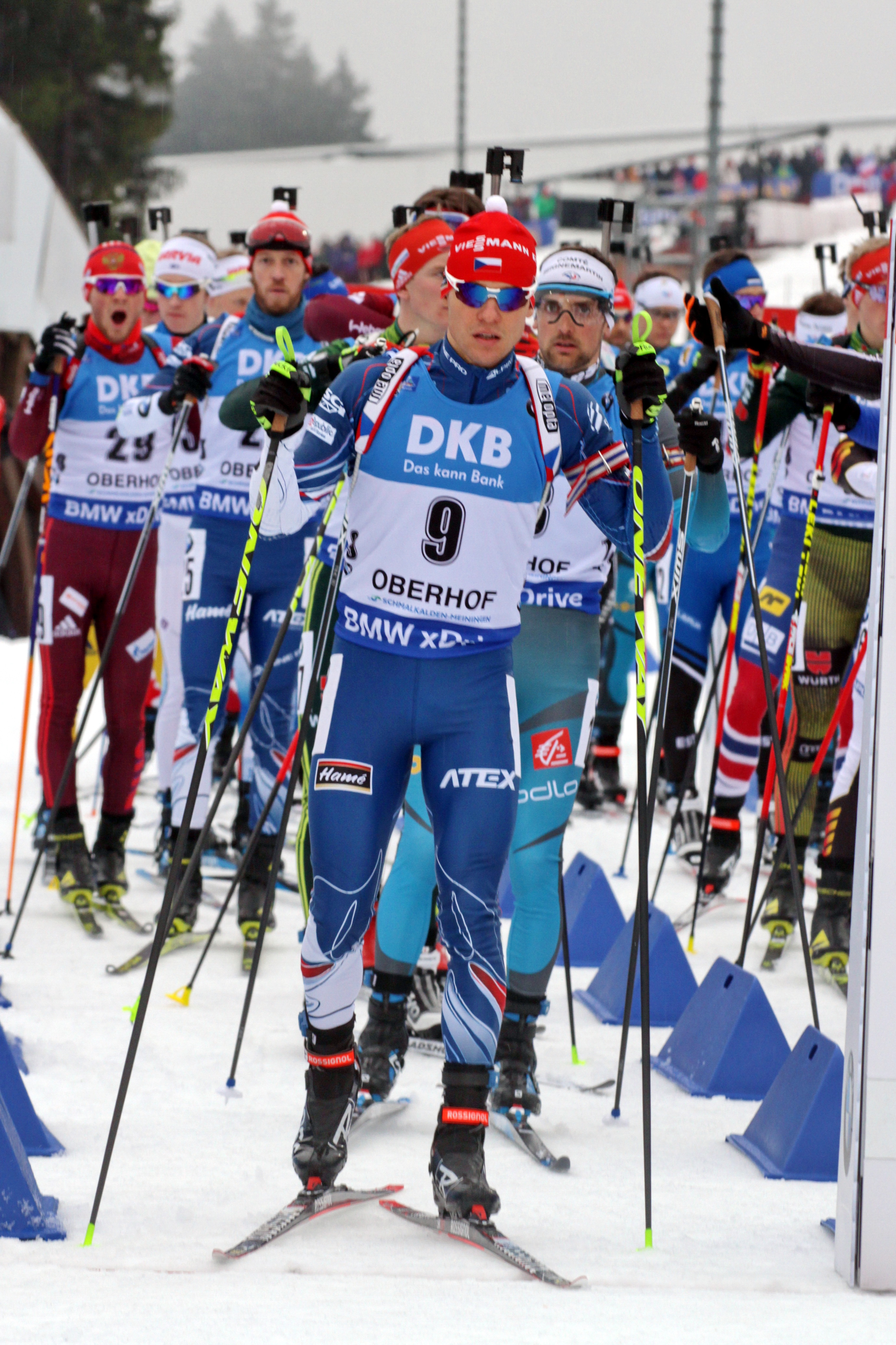 2018 Oberhof Biathlon World Cup - Pursuit Men